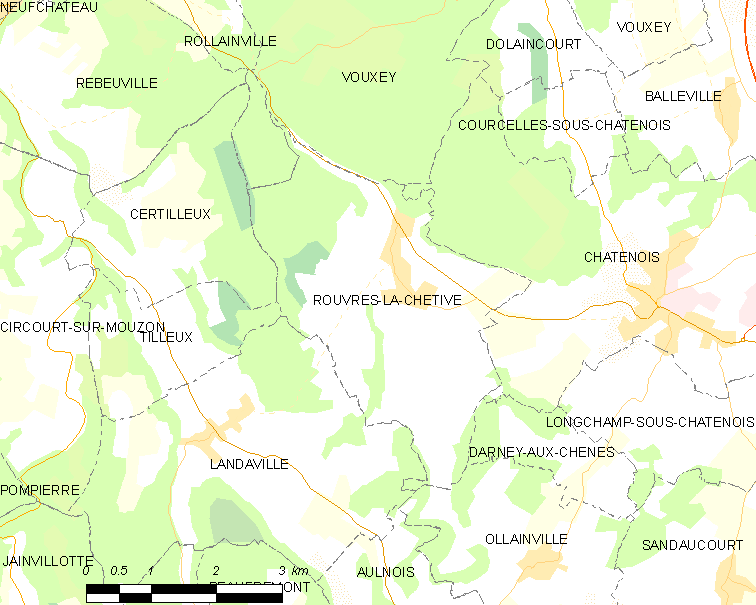 Map of French municipality Rouvres-la-Chétive